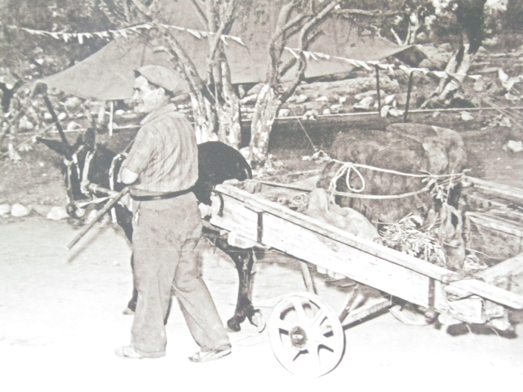 Landscape view, Immigration to Israel